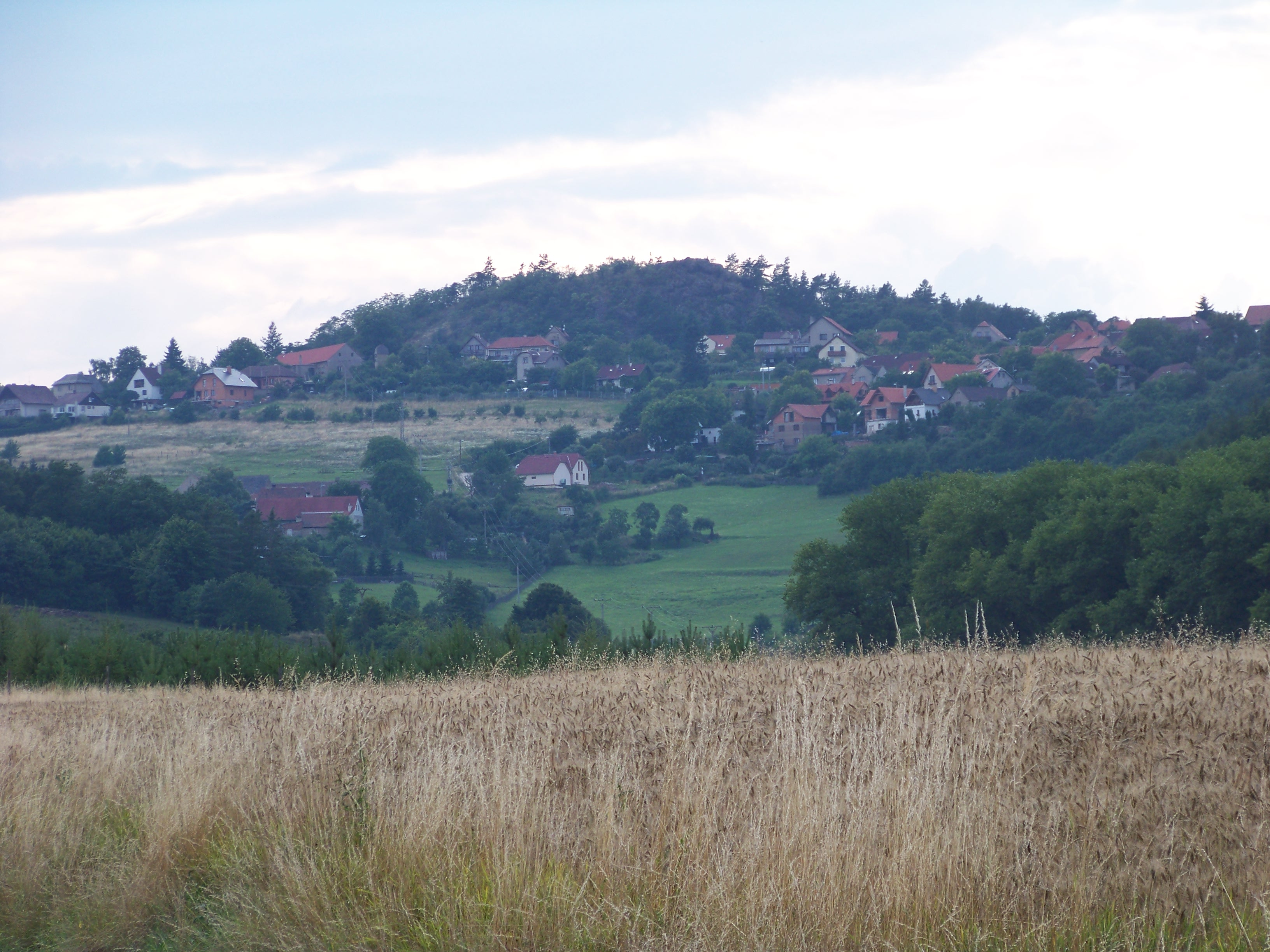 Svatá, Beroun District, Central Bohemian Region, the Czech Republic.